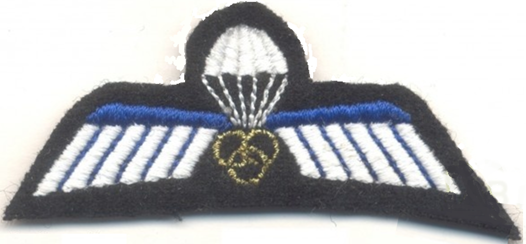 Para Wing instructor Netherlands (old)